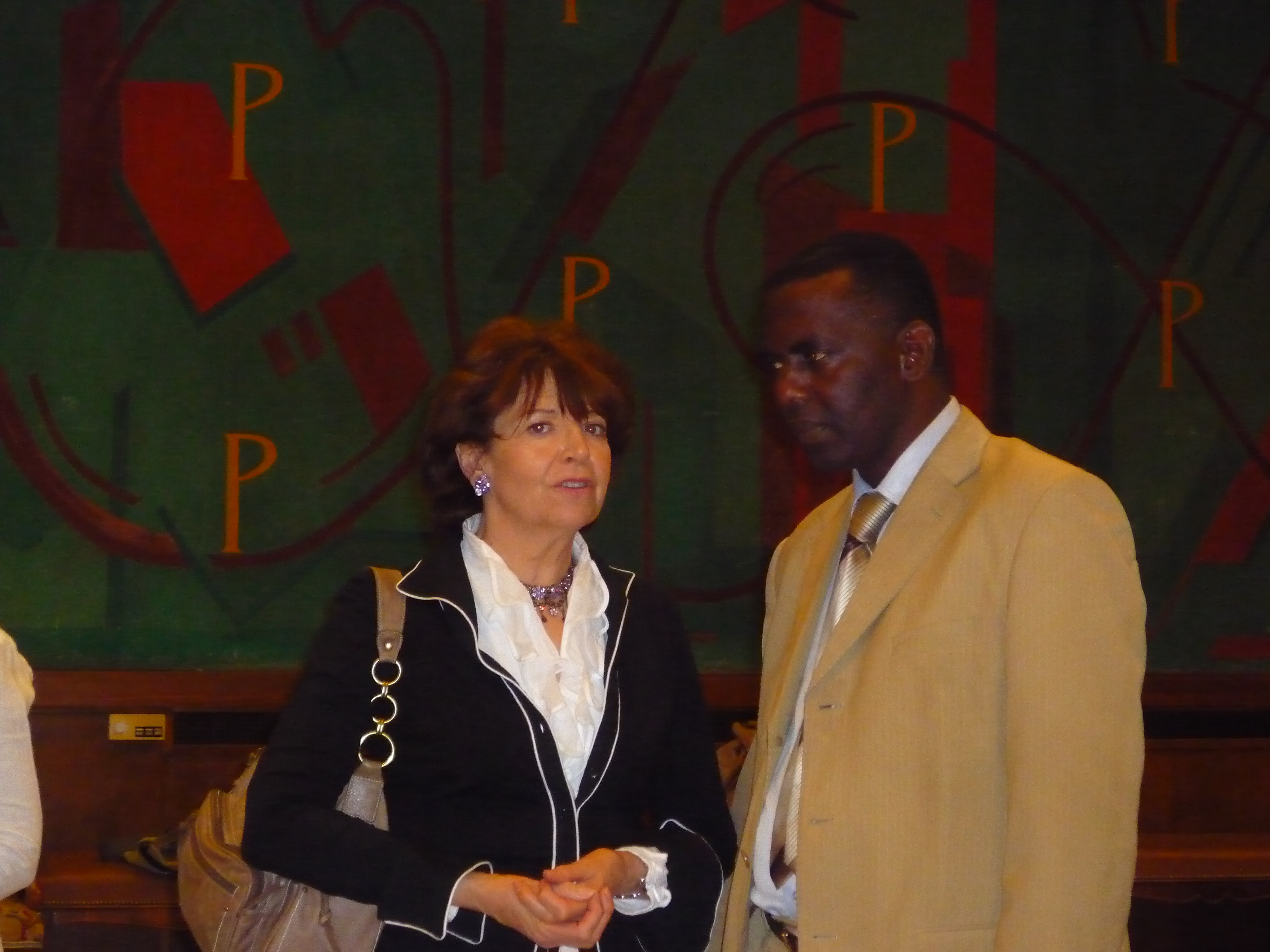 [Mohamed Wedoud] Marie-José Domestici-Met (L) with anti-slavery activist Biram Ould Dah Ould Abeid (R) who was sentenced to six months in prison for allegedly taking part in unauthorised rally.